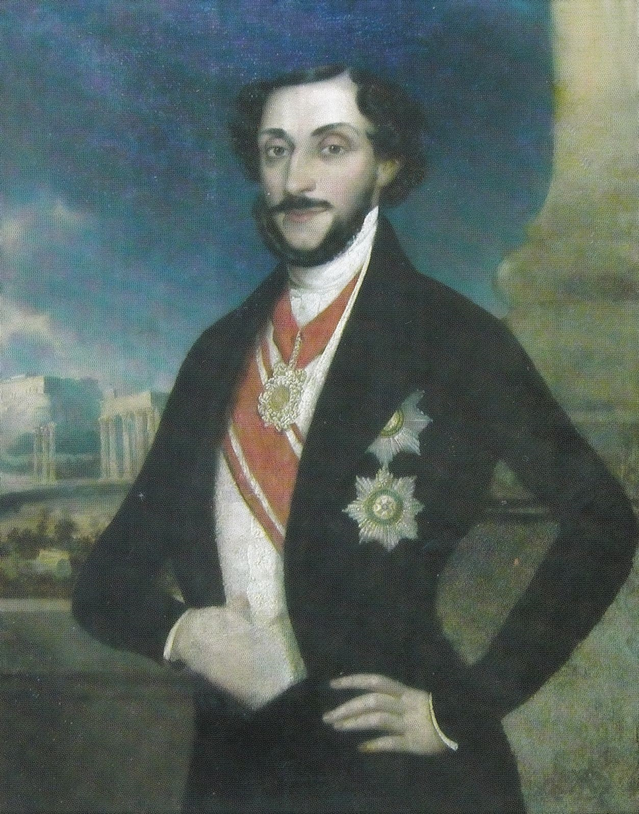 portrait of Barbu Ştirbei